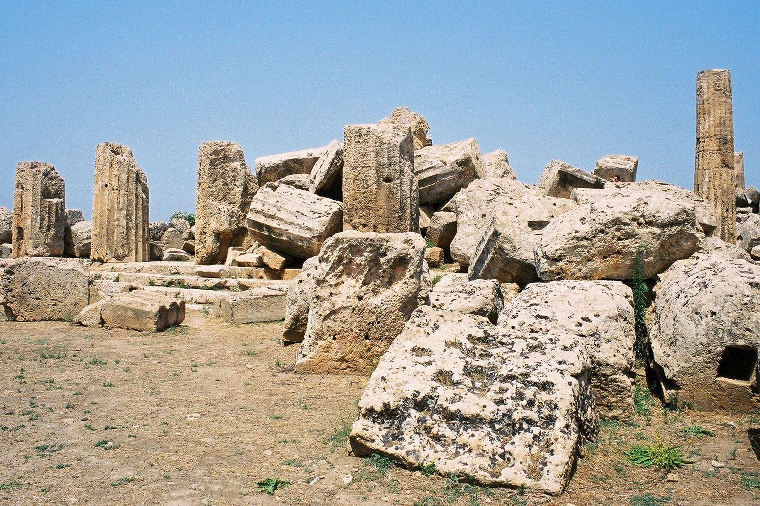 Selinunte (Sicily): Temple F